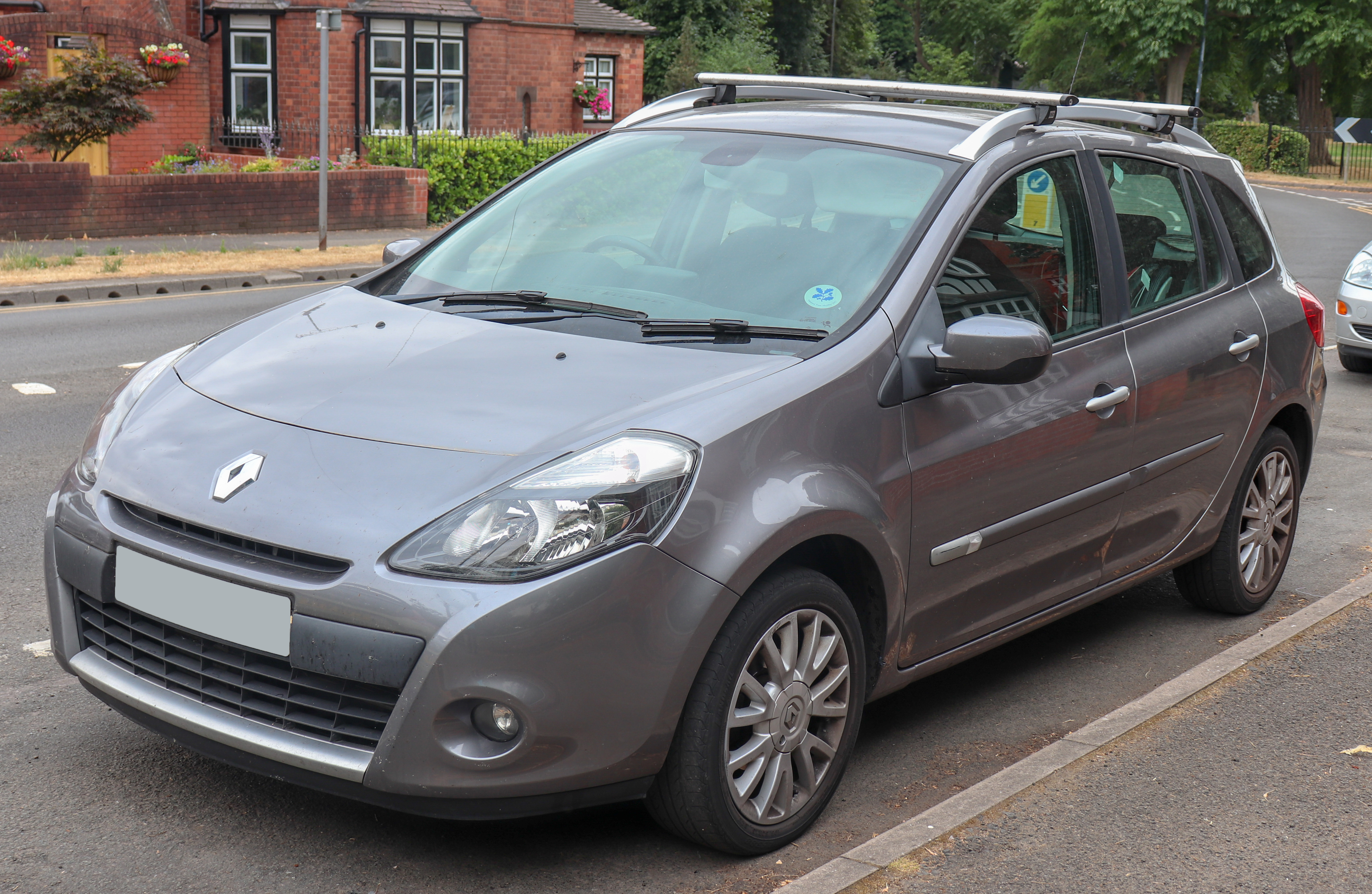 2011 Renault Clio Dynamique TomTom DCi Estate 1.5 Front Taken in Leamington Spa